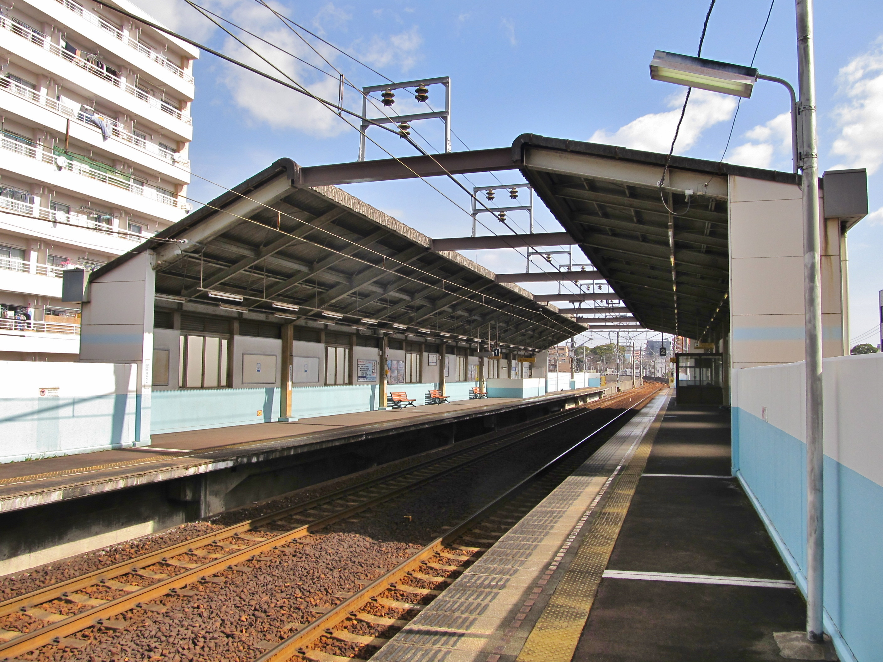 Nagoya Railroad Seto Line Shimizu Station Platform